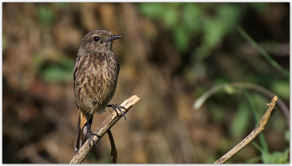 Pied Bush Chat by Dharani Prakash